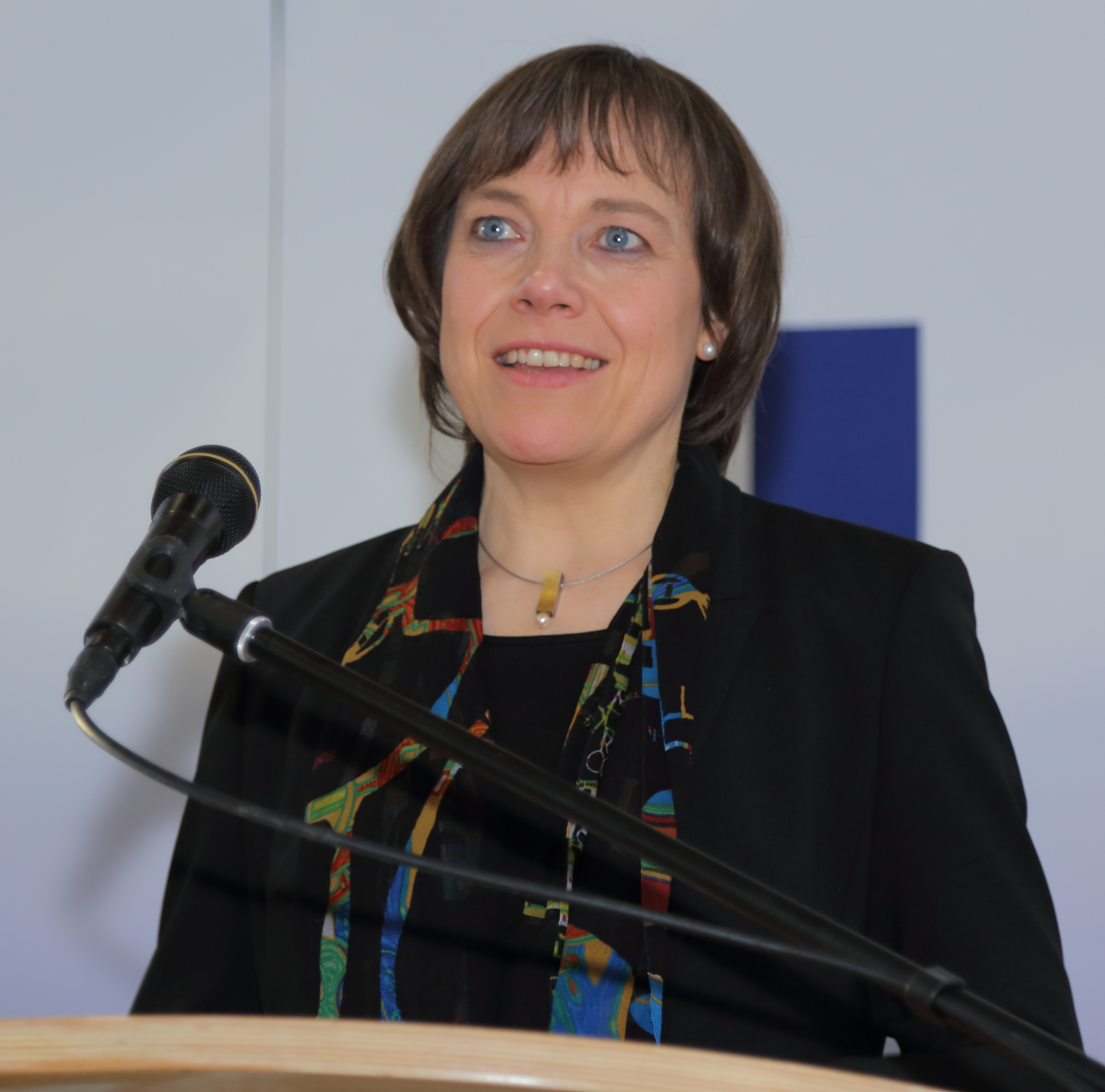 Annette Kurschus, Praeses (Präses) of the Evangelical Church of Westphalia (Evangelische Kirche von Westfalen, EKvW), speaking at Gravenhorst Abbey (Kloster Gravenhorst) in Hörstel-Gravenhorst, Kreis Steinfurt, North Rhine-Westphalia, Germany. Her visitation of the Evangelischer Kirchenkreis Tecklenburg concluded with this reception.